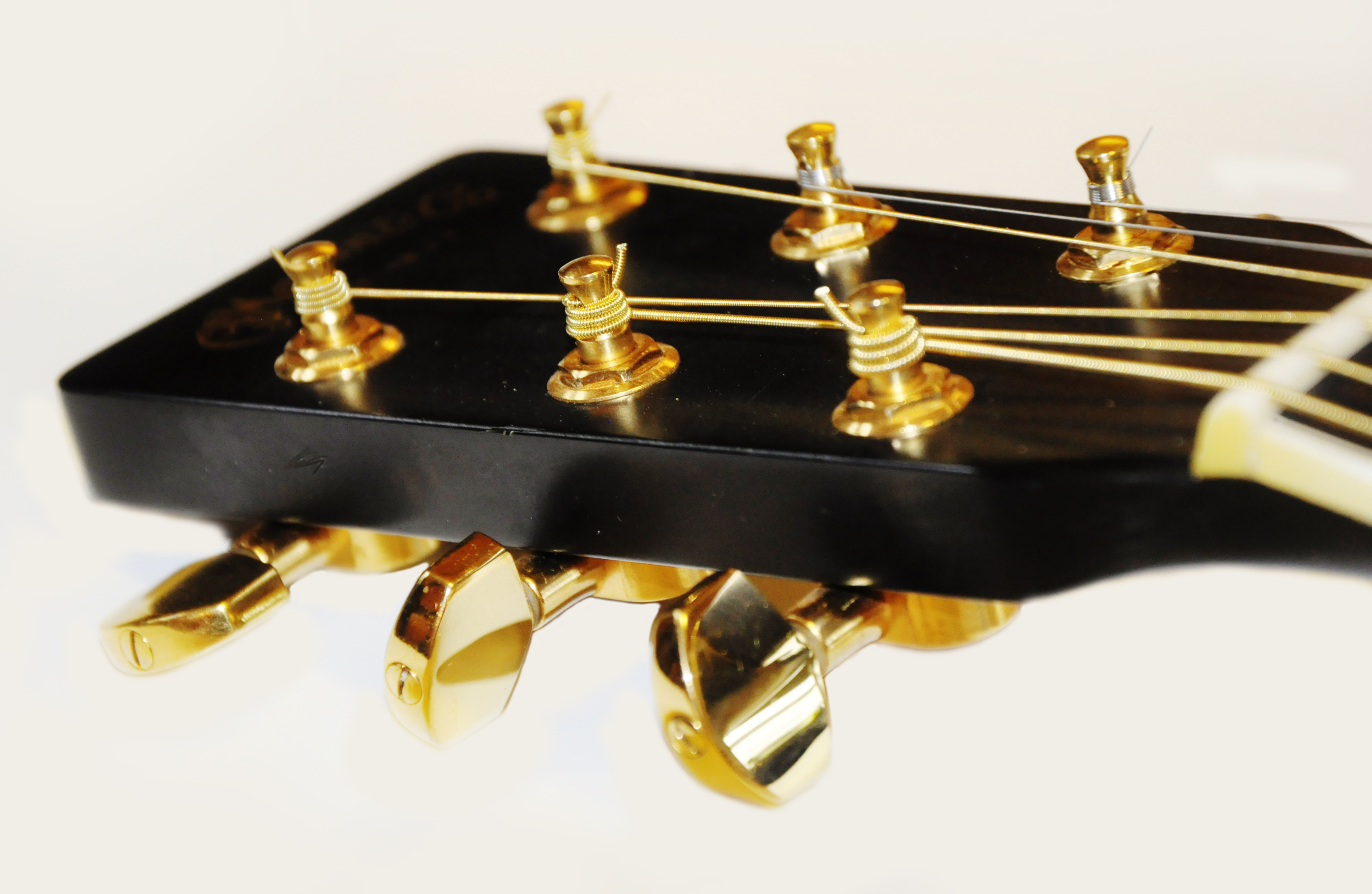 Steel-string guitar machine heads